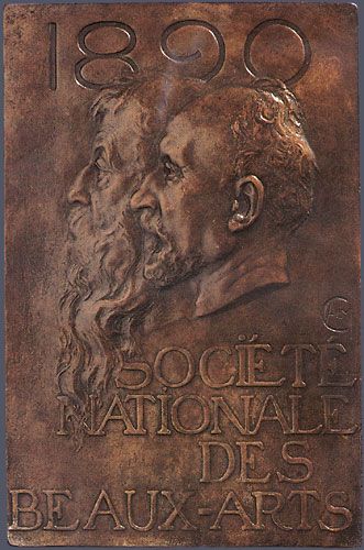 Medal for the celebration of the establishment of the Société Nationale des Beaux Arts in 1890, depicting Pierre Puvis de Chavannes and Ernest Meissonier.